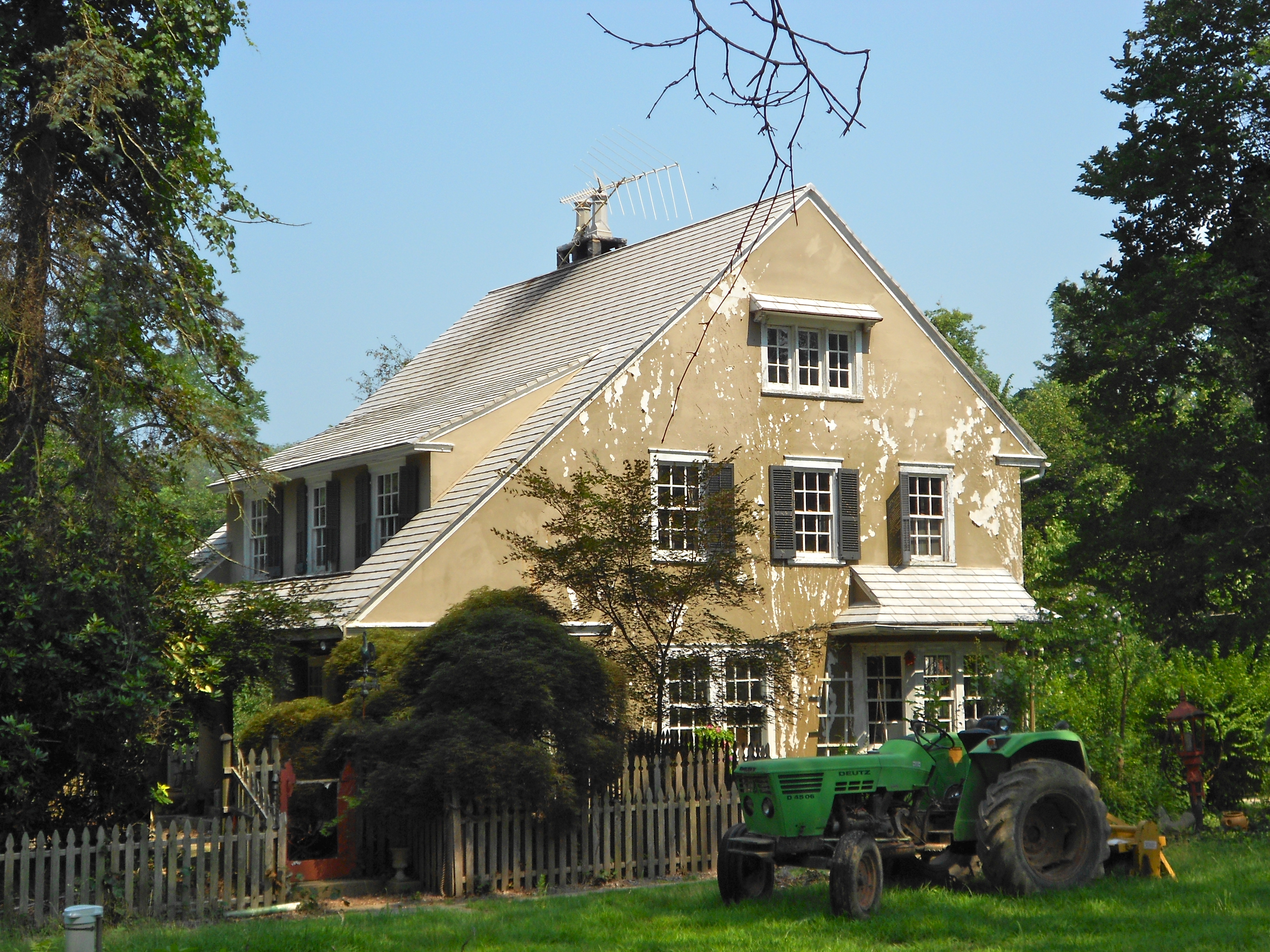 Edward W. Haviland House, listed on the NRHP on December 7, 2000. Located at 2464 Frenchtown Rd., near Port Deposit, Maryland